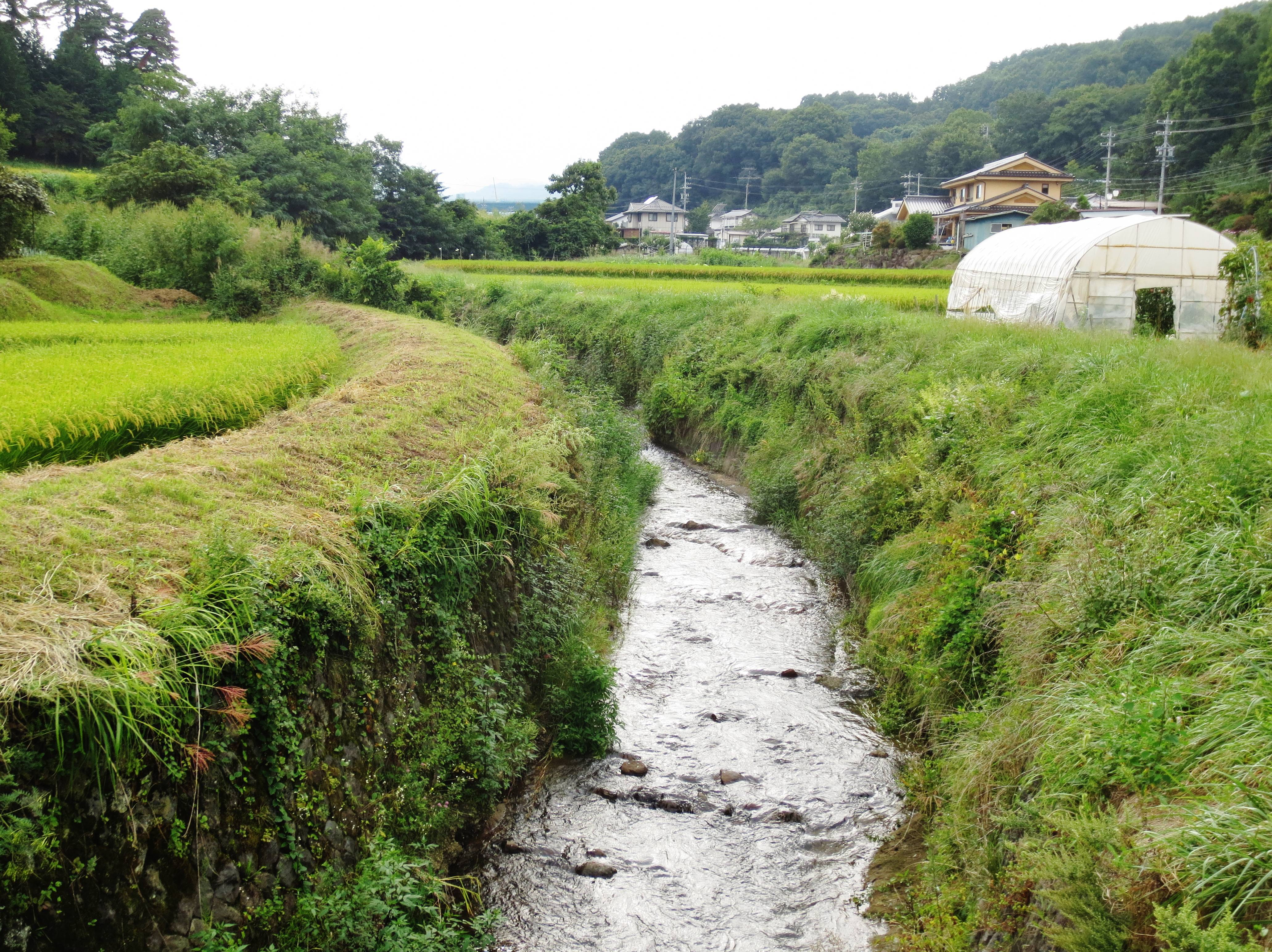 Kitazawa River (Sakuho, Nagano).